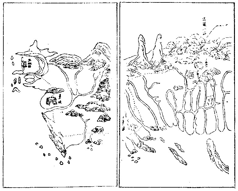 An early Qing map of Zhuluo County, taken from the Taiwan Prefectural Gazetteer. North is on the left of the image.